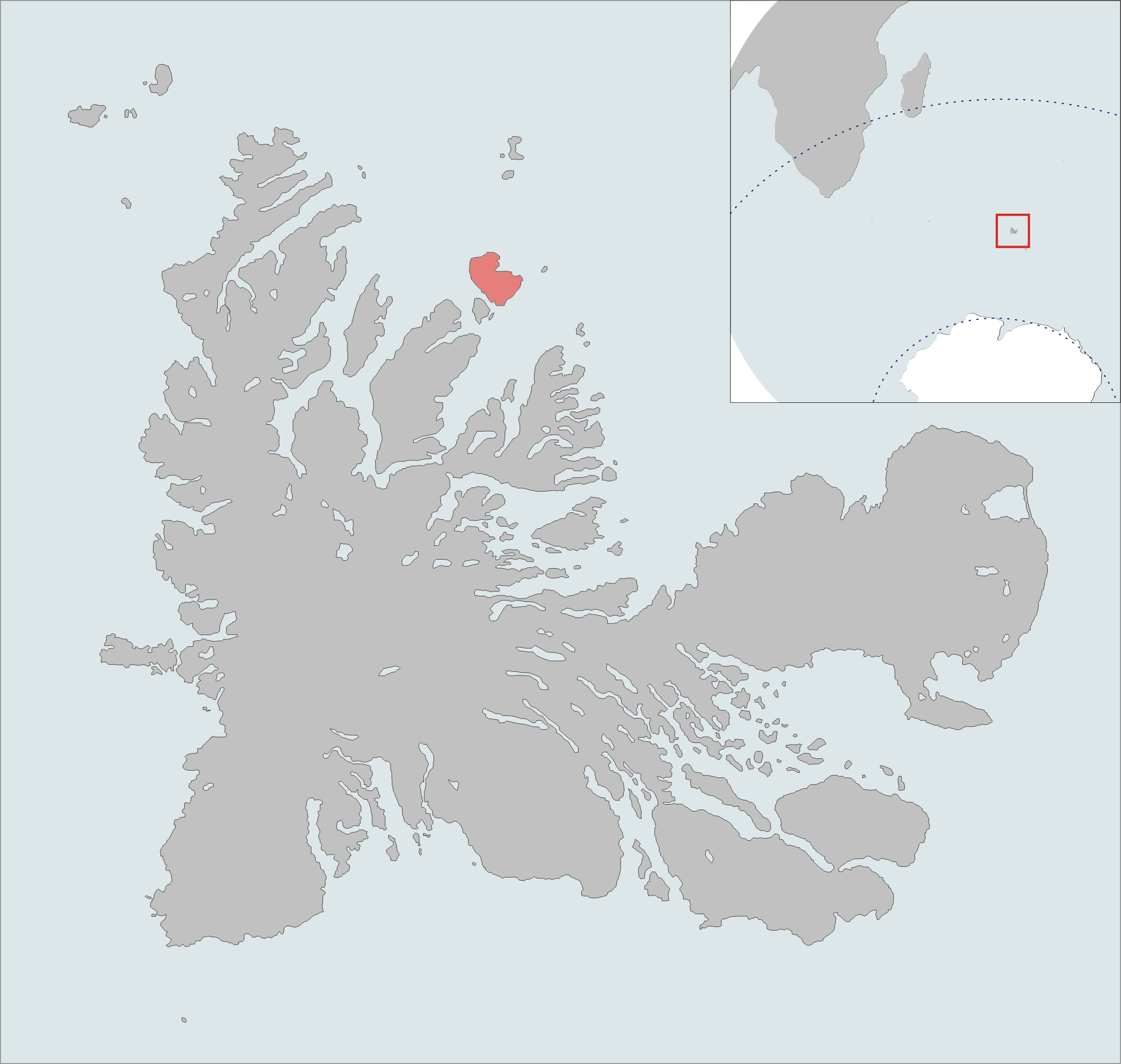 Position of Île Howe, in the Kerguelen Islands. Drawn by Varp and coloured by User:PoM.